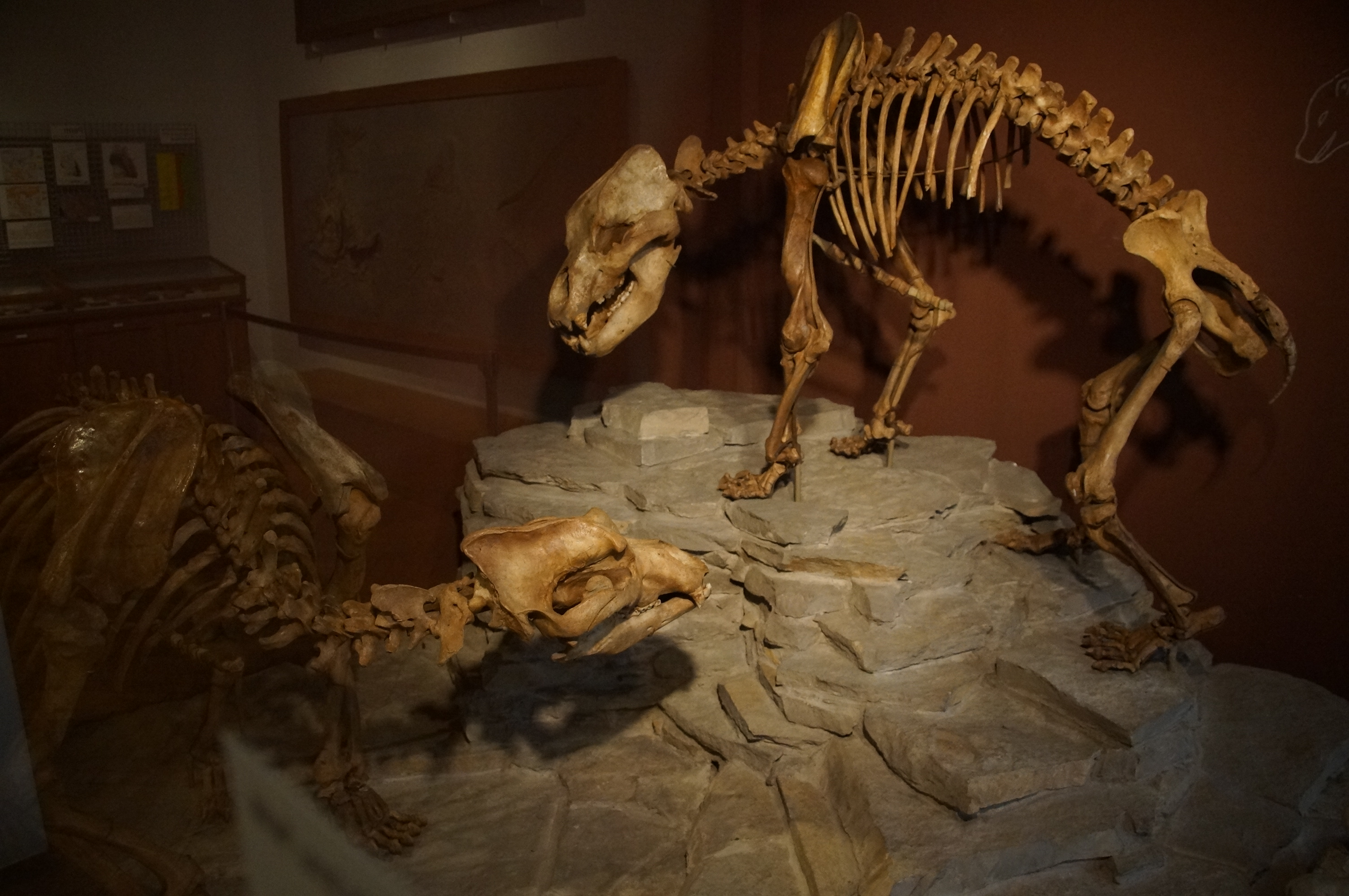 Skeletons of two bears of the Bärenhohle cave near Sonnenbühl on the Suebian Alb now exhibited in the paleontological institute of the University of Tübingen (Germany)